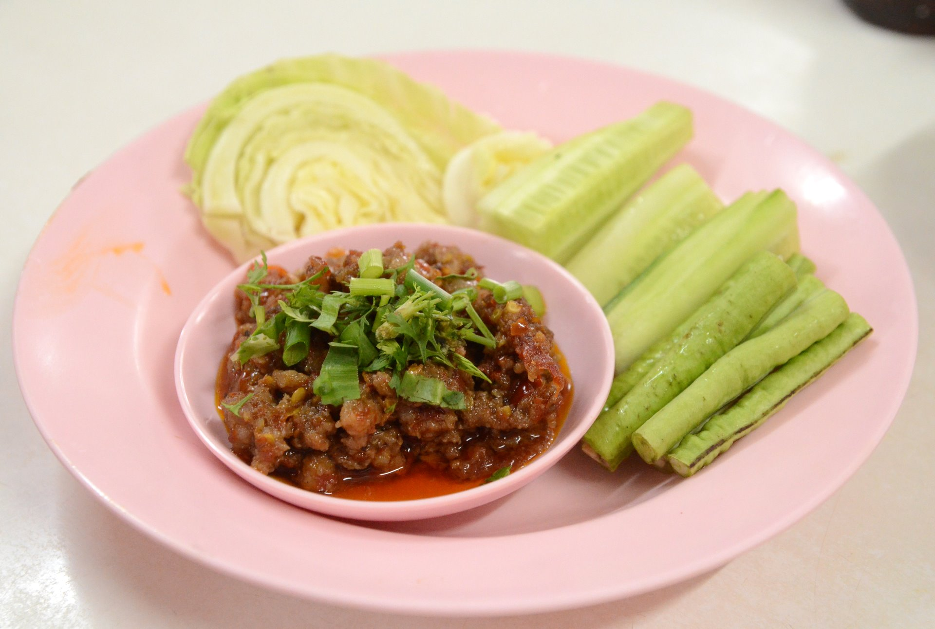 Nam phrik ong (Thai script: น้ำพริกอ่อง): A Northern Thai chilli dip with minced pork and tomato. Best described as a spicy Bolognese sauce, it is served with raw vegetables and traditionally eaten with sticky rice and deep-fried pork skin (kaep mu).